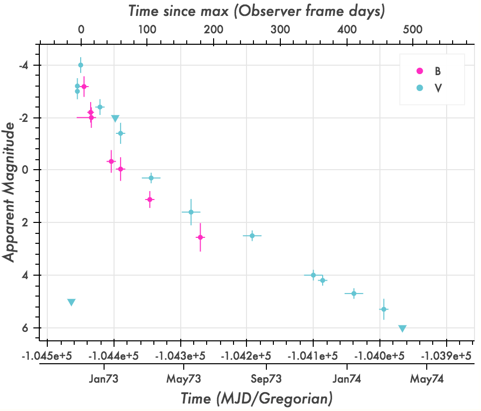 Photometry of Tycho